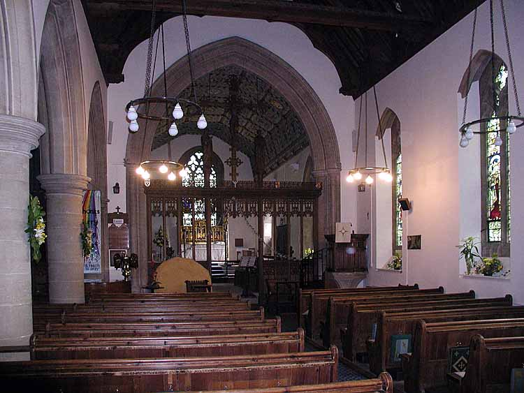 Inside St Lawrence's parish church, Bourton-on-the-Water, Gloucestershire, looking east to the rood screen and chancel